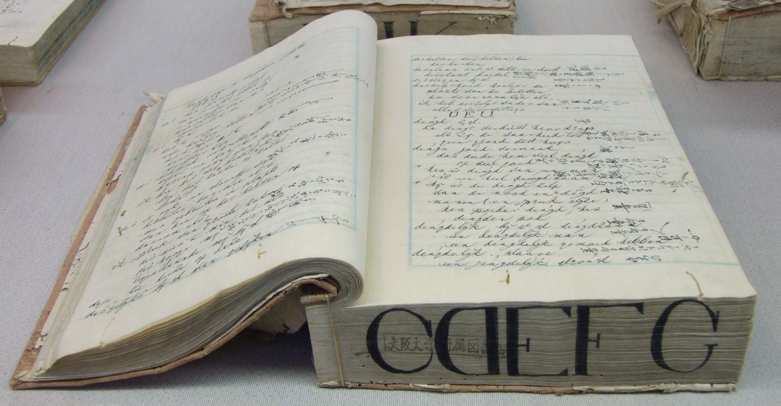 Doeff-Halma_Dictionary003